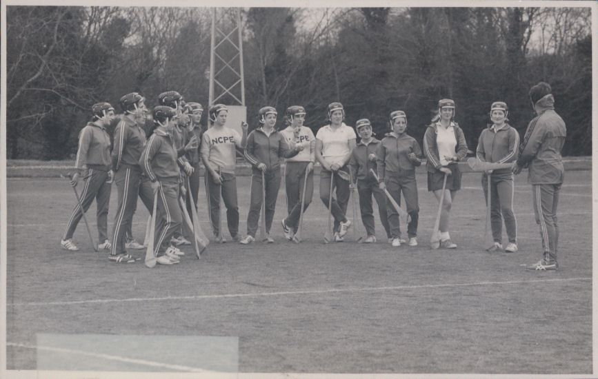 Ref: UL40/Box3/Folder4Thomond College of Physical Education students - Camogie